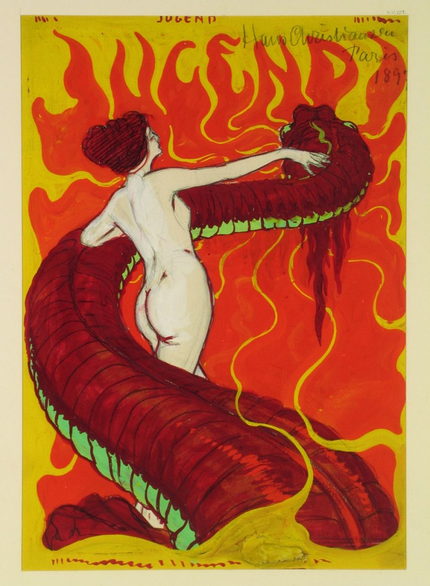 Andromeda, a sketch for the "Jugend" Magazine, published in Munich Museumsberg Flensburg Native nameMuseumsberg FlensburgLocationFlensburgCoordinates54° 47′ 08.52″ N, 9° 25′ 53.69″ E Established1876Web page control : Q1954806 VIAF: 153292417 LCCN: nb2009027482 GND: 2166186-8 SUDOC: 07759679X WorldCat institution QS:P195,Q1954806